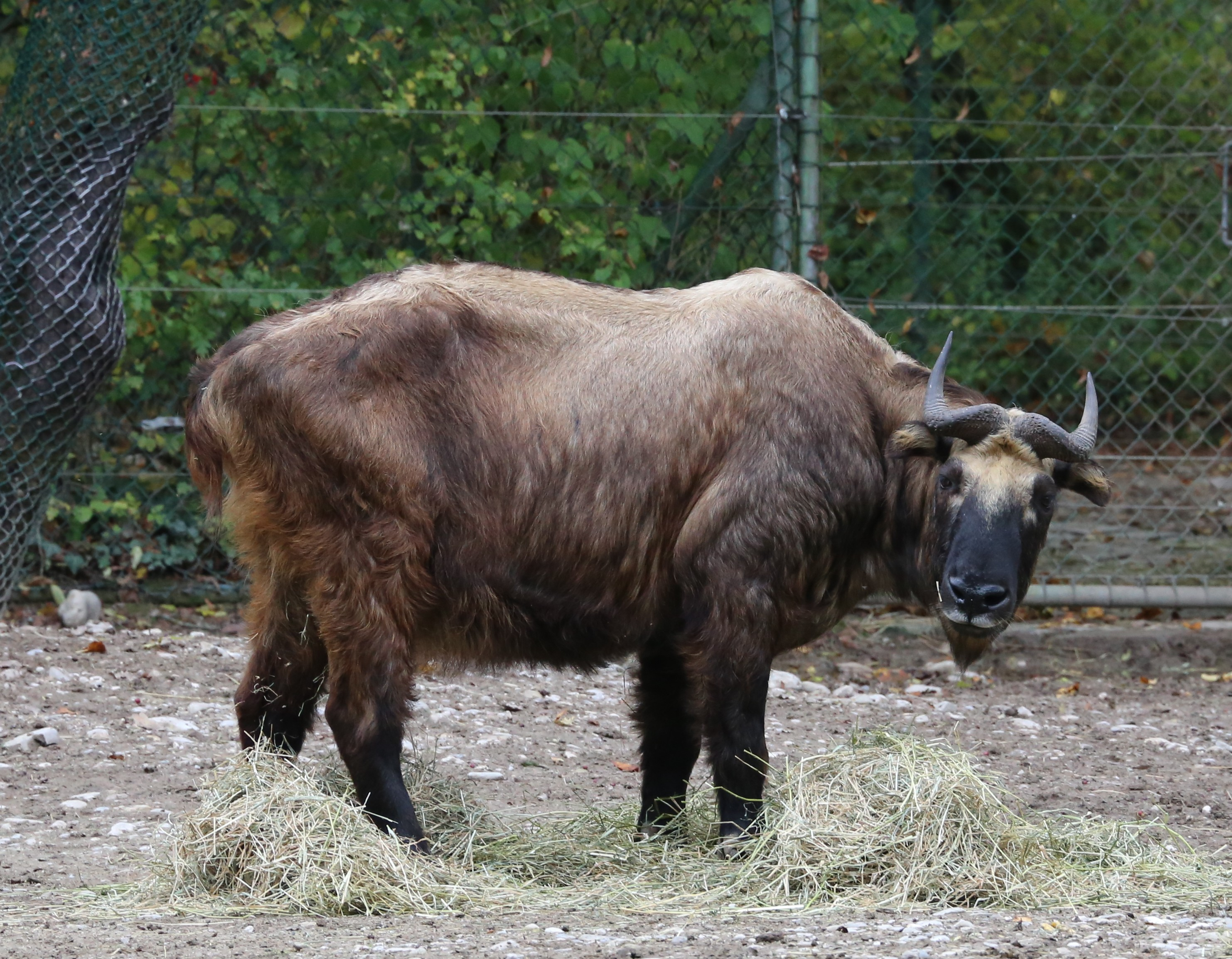 Takin (Budorcas taxicolor), Tierpark Hellabrunn, München